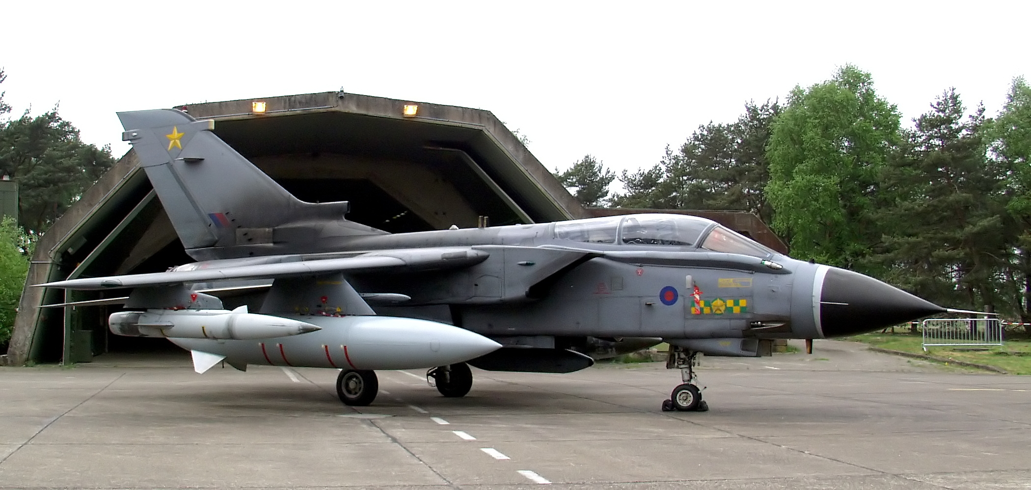 A Panavia Tornado GR4 of No. 31 Squadron, Royal Air Force, at the "Niederrhein Airport" at Weeze, Northrhine-Westphalia, Germany, on 2 May 2004. The airport is the former RAF Germany base RAF Laarbruch, which was used by the RAF from 1954 to 1999. 31 Sqn is based at RAF Marham, Norfolk (UK).